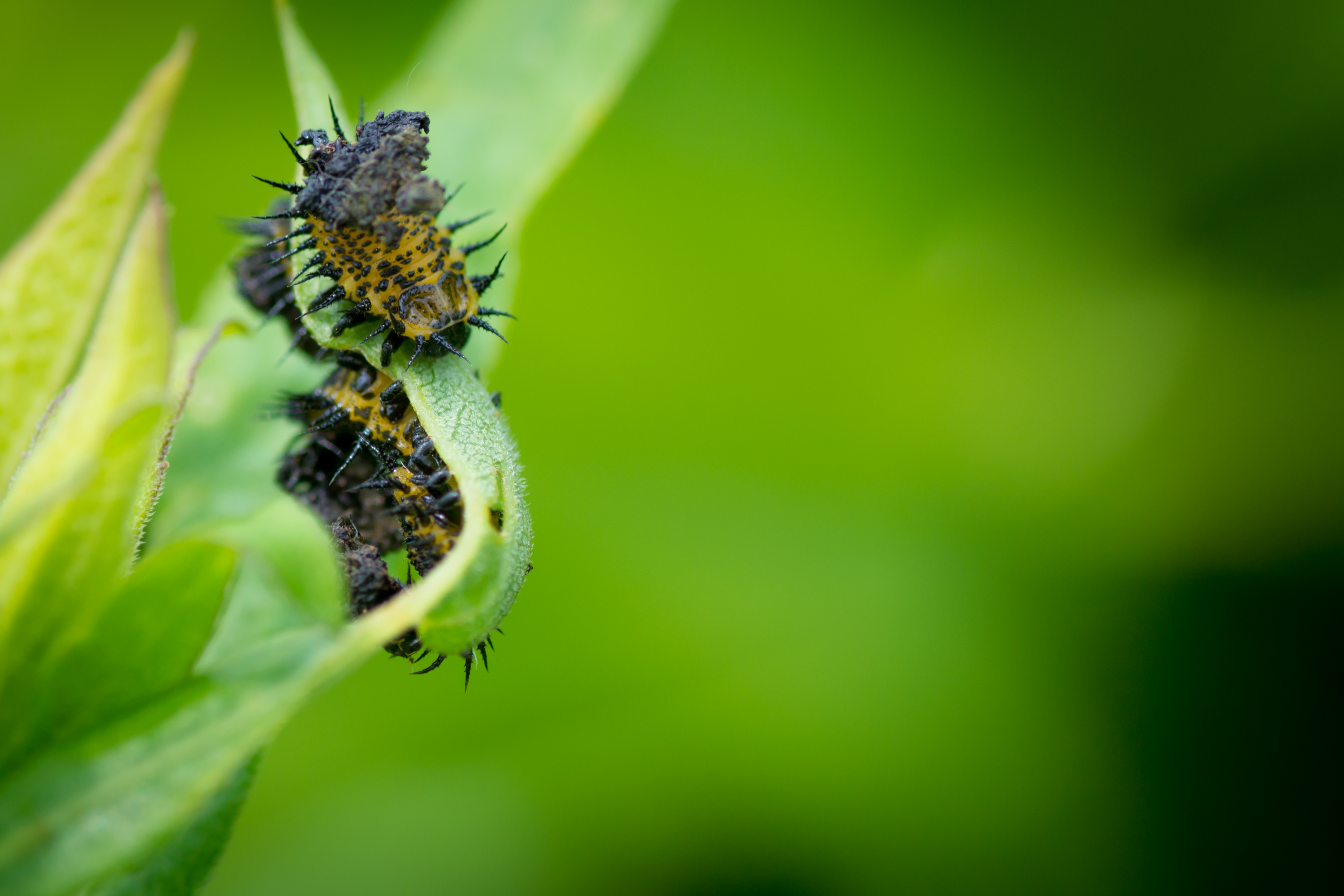 With fecal shields Ellis Lake Wetlands, Fairfield, Ohio